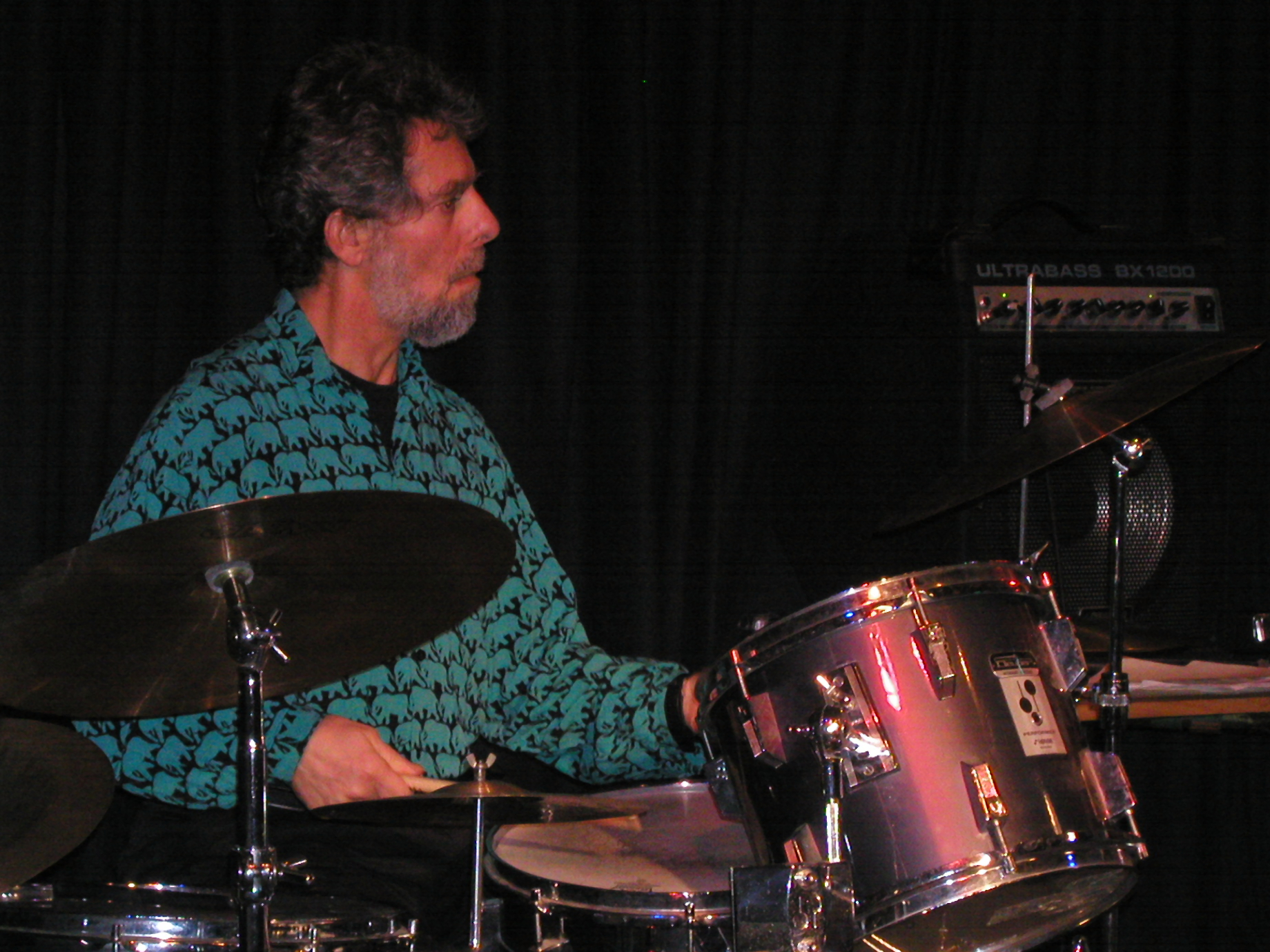 Drummer Lou Grassi in concert with the "Nu Band" in Club W71, Weikersheim